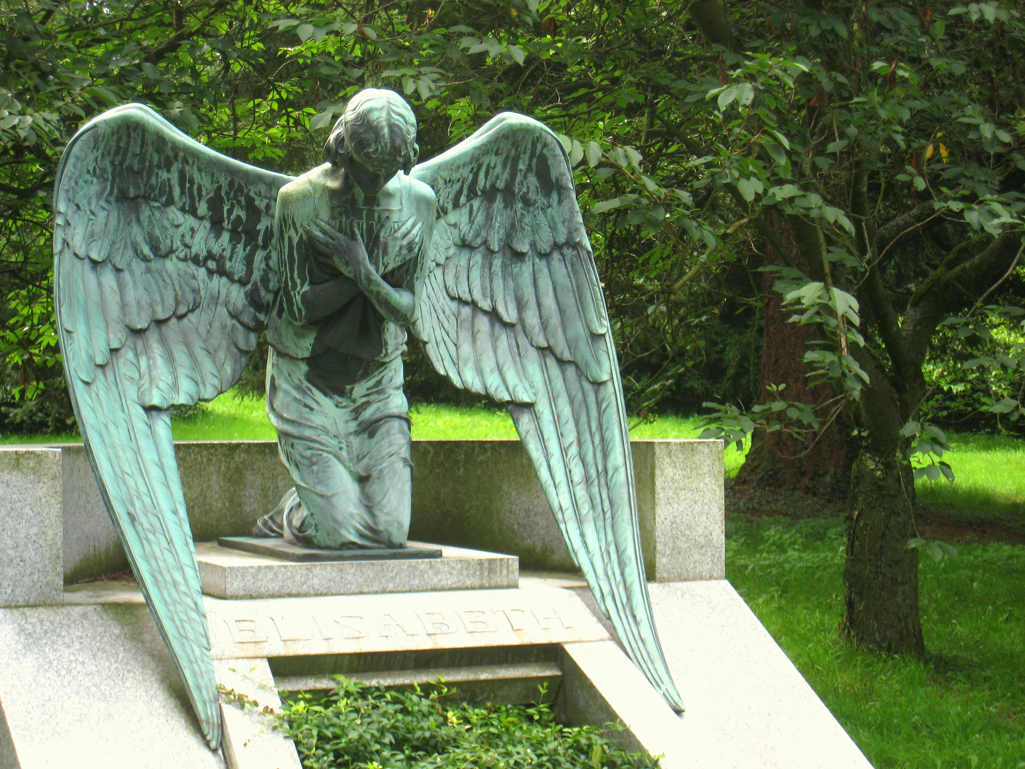 Grave of Princess Elisabeth of Hesse and by Rhine (1895–1903) by sculptor Ludwig Habich (1872–1949)